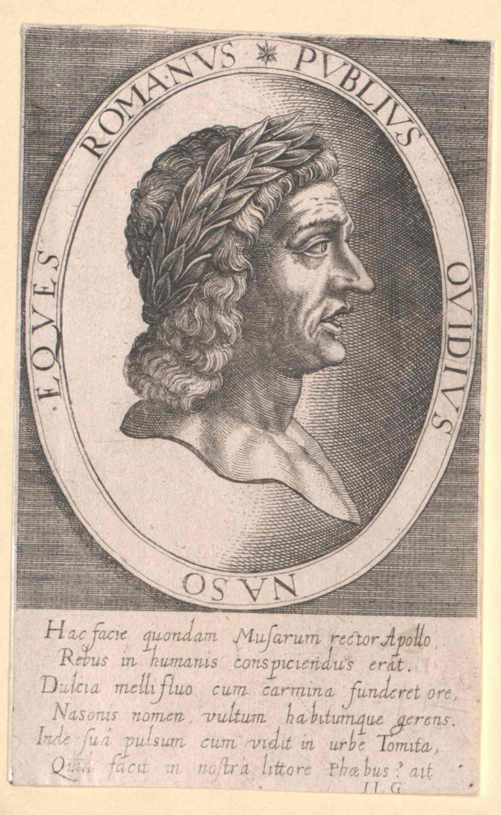 Ovidius Naso, Publius (43 v Chr - 18 n Chr)